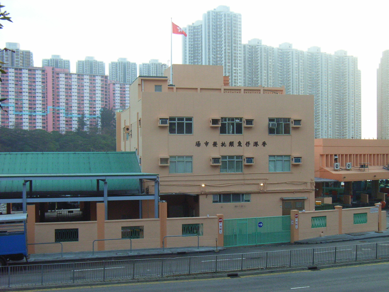 香港仔華人永遠墳場的周邊環境黃昏景觀